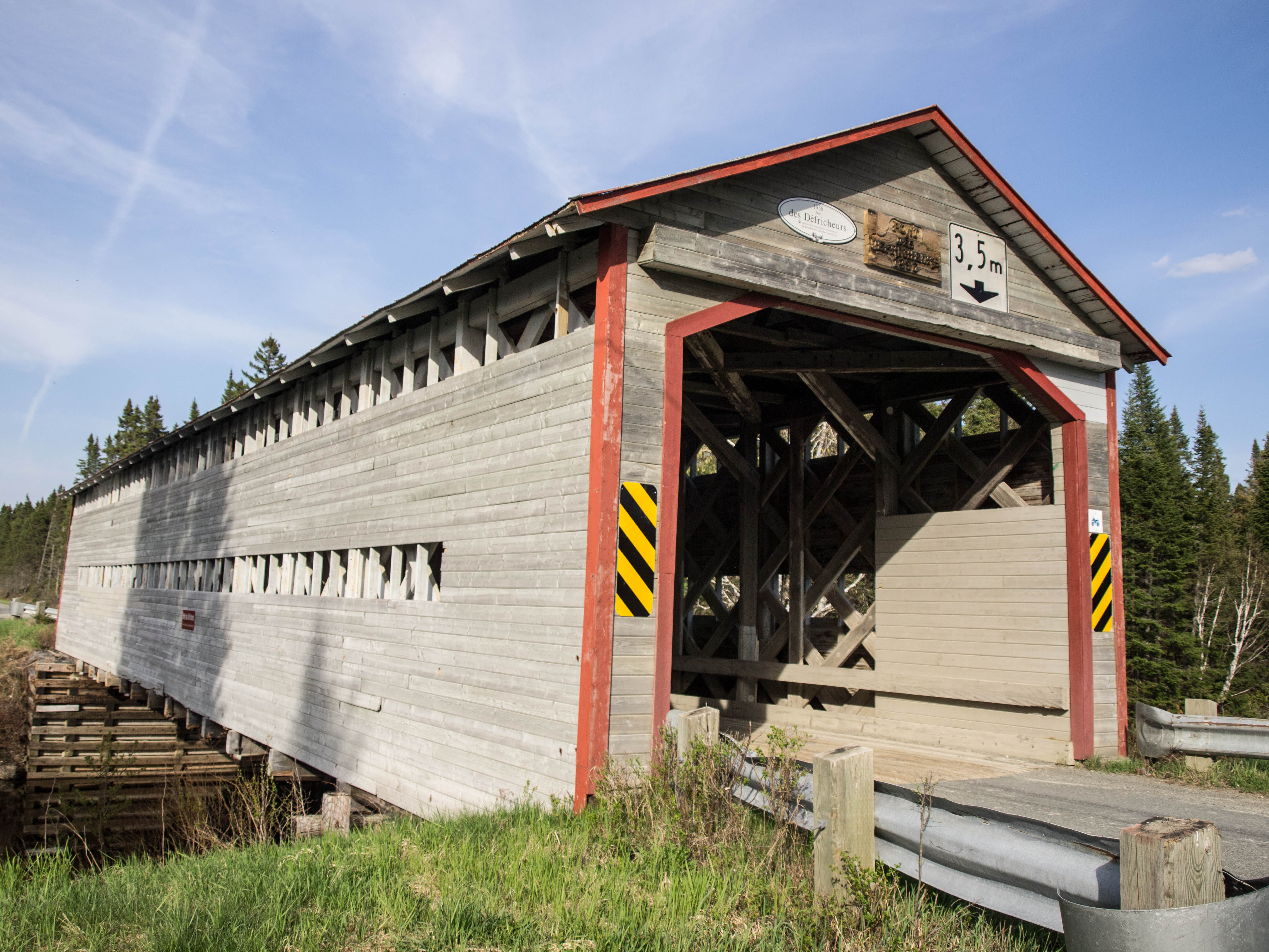 Covered bridge crossing the Black River